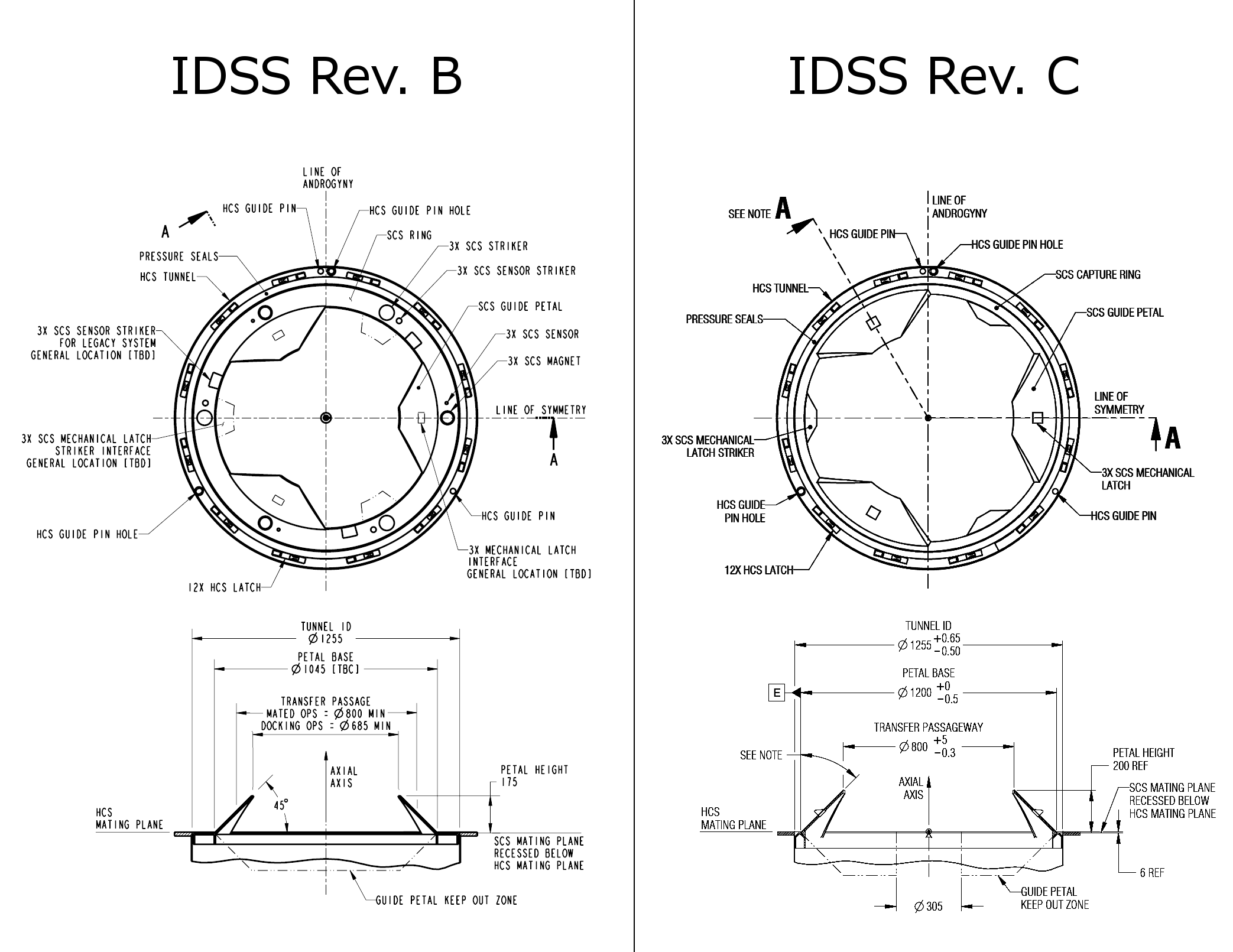 I tossed this together. The drawings are from the International Docking System Standard which is in the public domain.